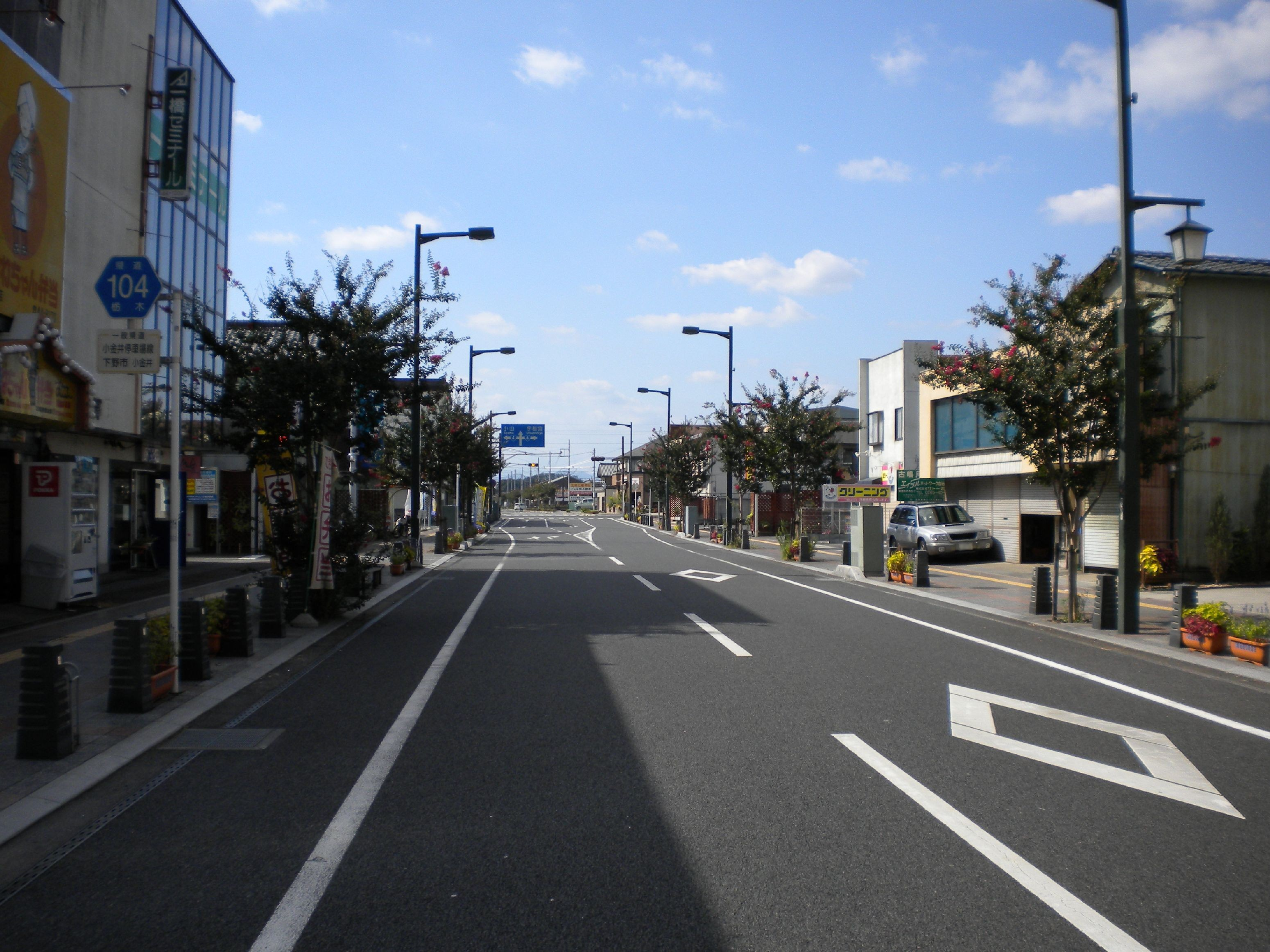 Tochigi prefectural road No.104 on Shimotsuke city